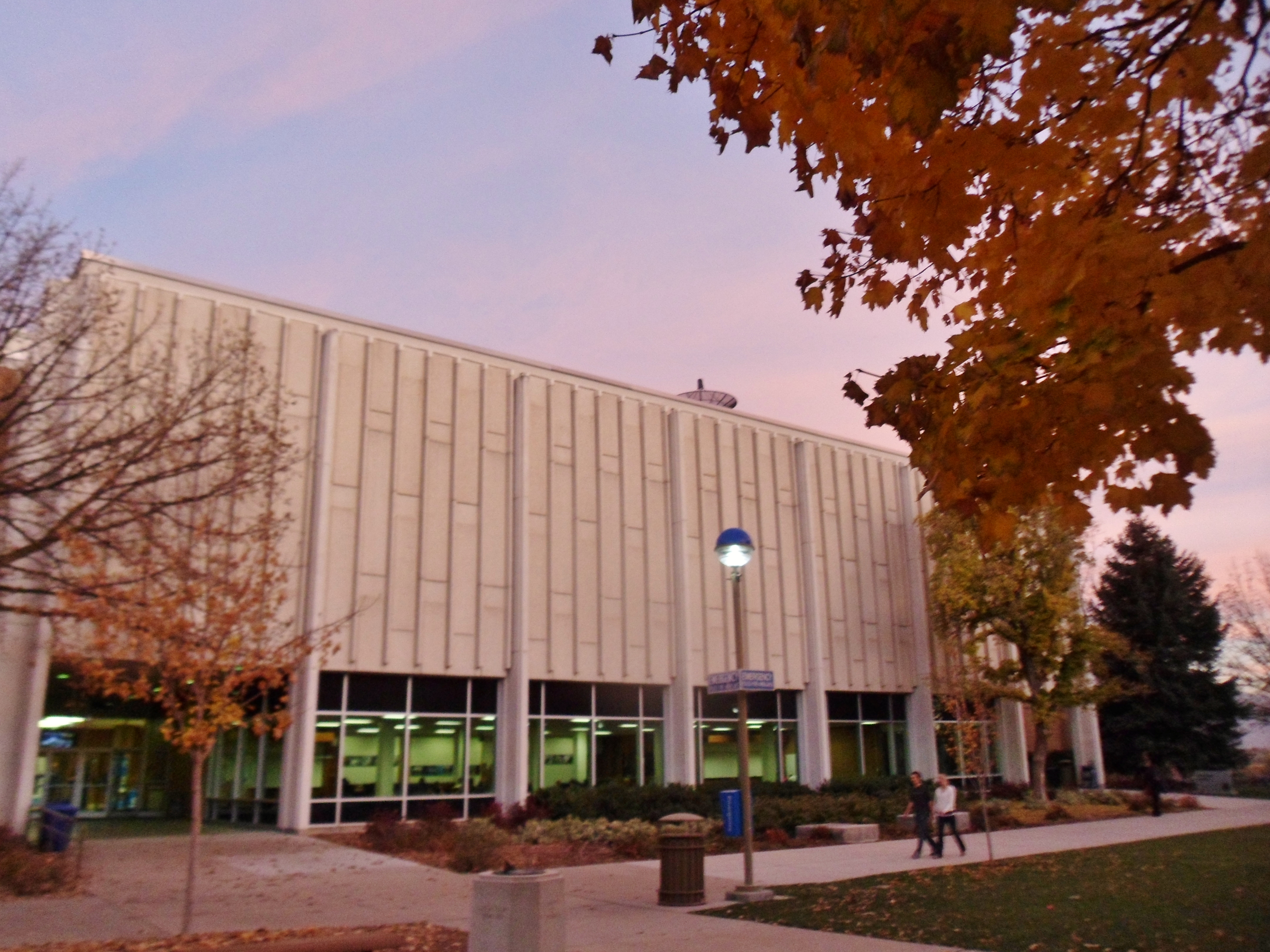 The Wilford W. Clyde building in the fall at sunset.